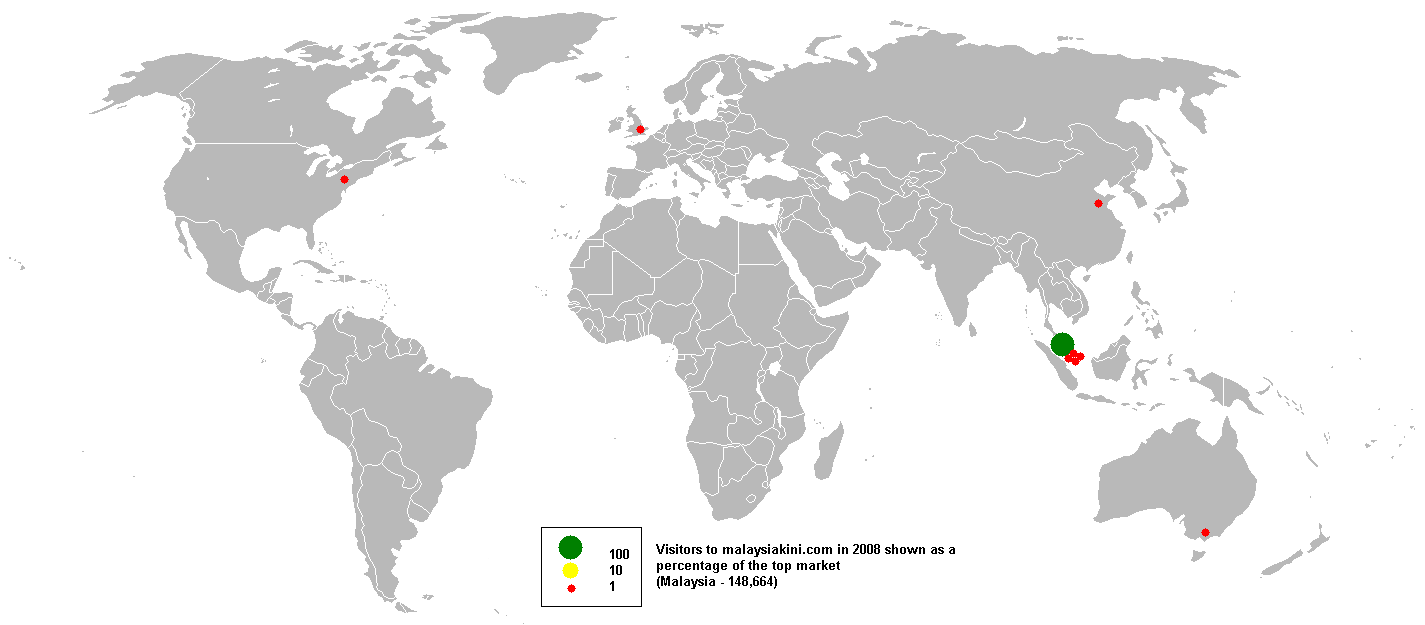 This bubble map shows the global distribution of visitors to the website in 2008 as a percentage of the top market (Malaysia - 148,664). This map is consistent with incomplete set of data too as long as the top market is known. It resolves the accessibility issues faced by colour-coded maps that may not be properly rendered in old computer screens.